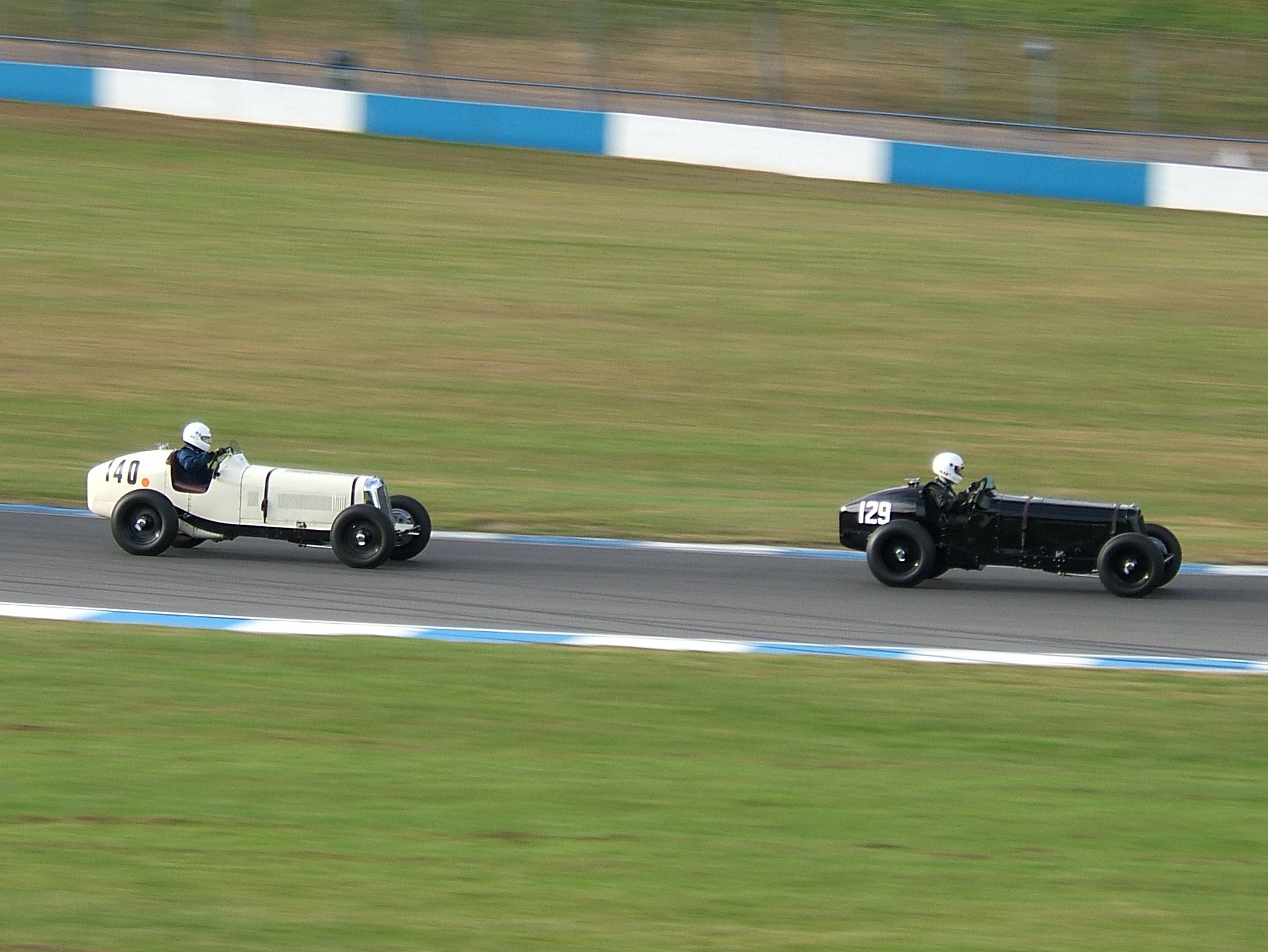 Paddins Dowling in ERA R10B leads Paul Mullins in R7B towards the Old Hairpin, during the VSCC SeeRed race meeting, Donington Park, September 2007.